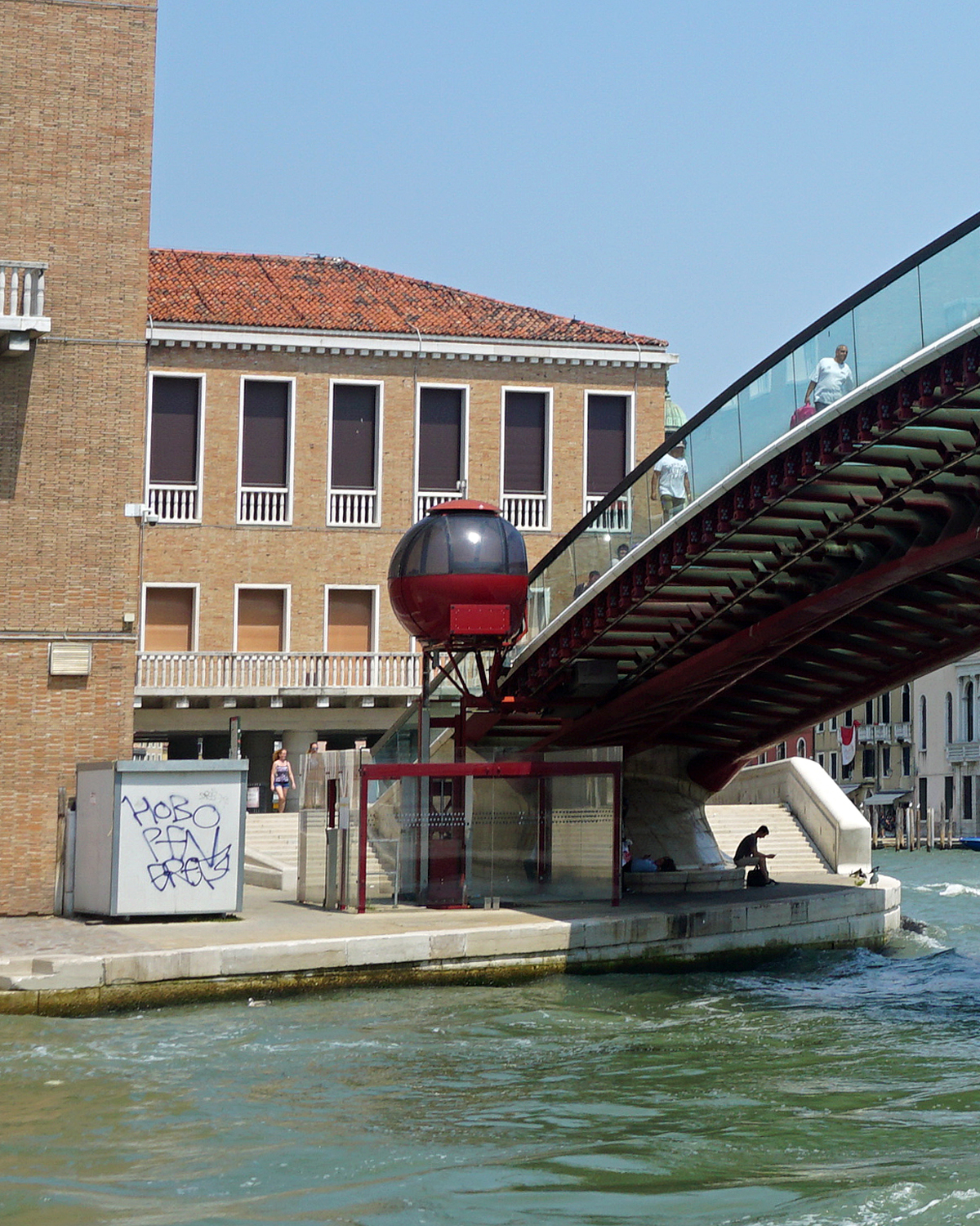 Wheelchair elevator for crossing the Grand Canal along the Calatrava bridge, Venezia, Italy.